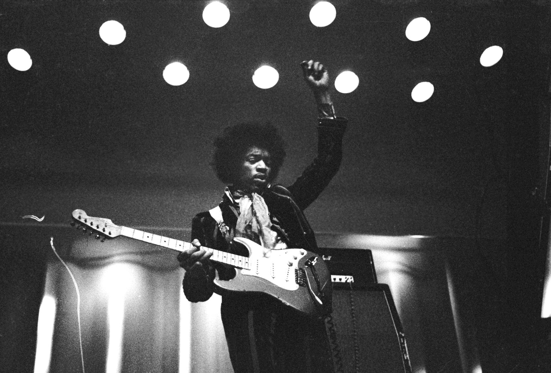 The Jimi Hendrix Experience performed at the Culture House in Helsinki.